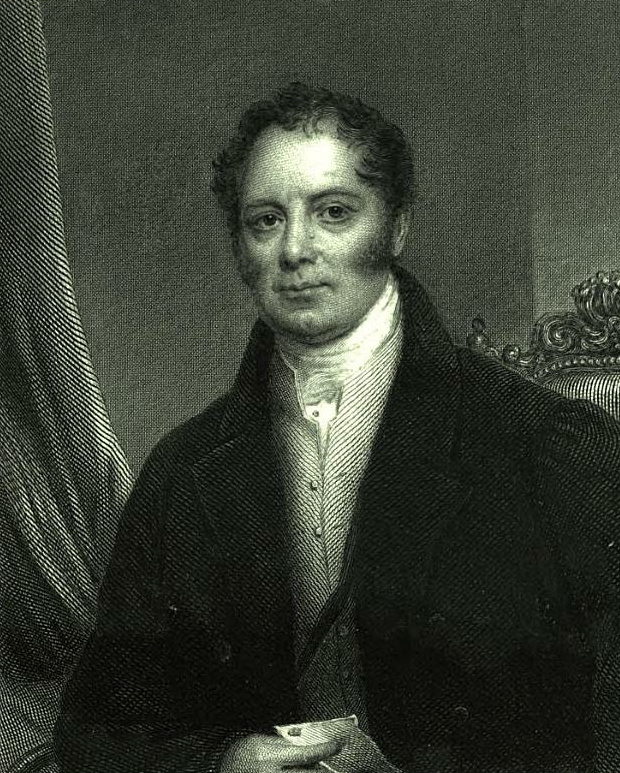 Likeness of Edward Baines (1774-1848)